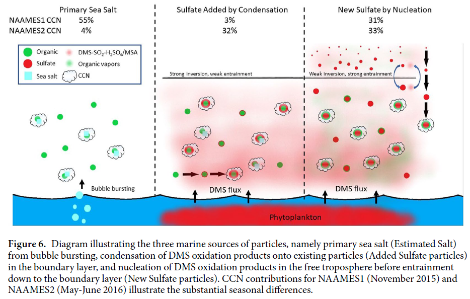 Diagram illustrating the three marine sources of particles, namely primary sea salt from bubble bursting, condensation of DMS oxidation products onto existing particles in the boundary layer, and nucleation of DMS oxidation products in the free troposphere before entrainment down to the boundary layer. CCN contributions for NAAMES1 (November 2015) and NAAMES2 (May-June 2016) illustrate the substantial seasonal differences.